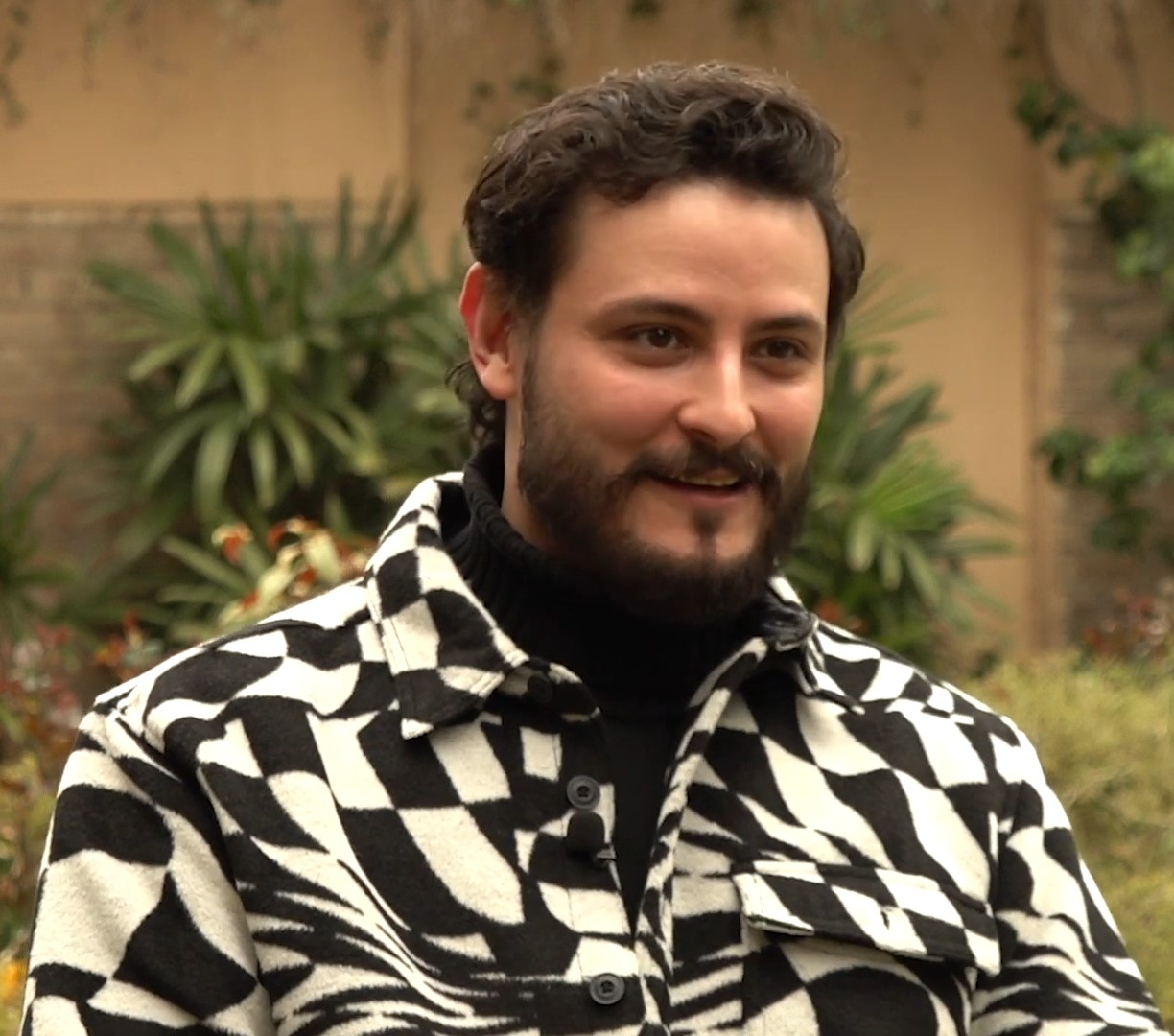 Osman Khalid Butt modelling for 'Company of Men', Pakistan's first men's fashion blog